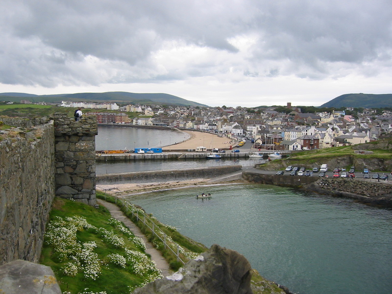 Peel, Isle of Man, 2002 Gaelg: Ta Purt ny h-Inshey, Ellan Vannin, 2002